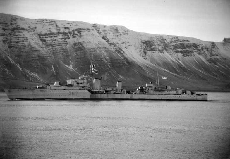 The Royal Navy during the Second World War HMS BEDOUIN coming in off patrol, at Hvalfjord, Iceland.